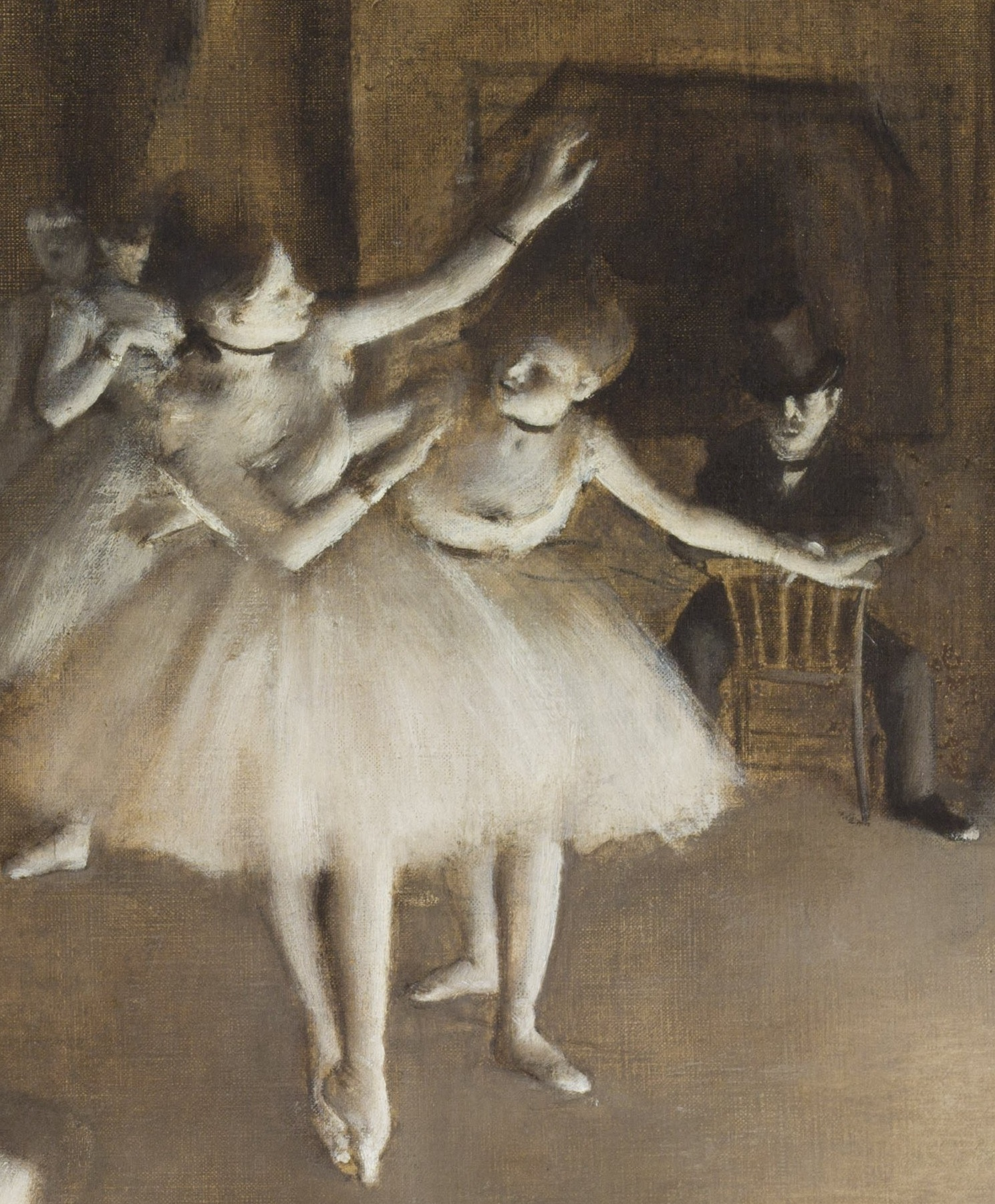 Répétition d'un ballet sur la scène (detail)